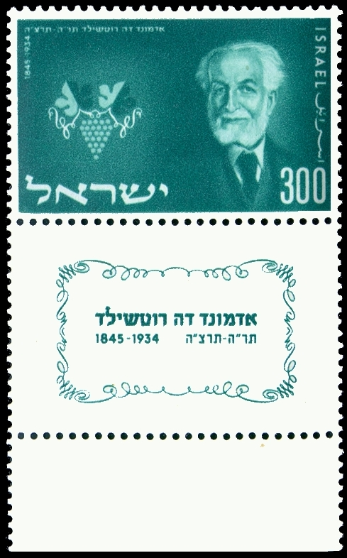 Israeli postage stamp depicting Jewish philantropist Baron Edmond James de Rothschild - 300 mil. Inscription on tab: "Edmond de Rothschild".